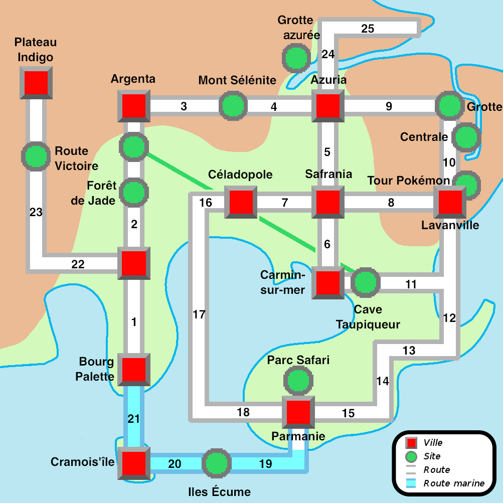 Map of the videogames Pokémon Red & Blue world. Drawn from File:Tojoh blank.png published in the public domain by Kyoww.